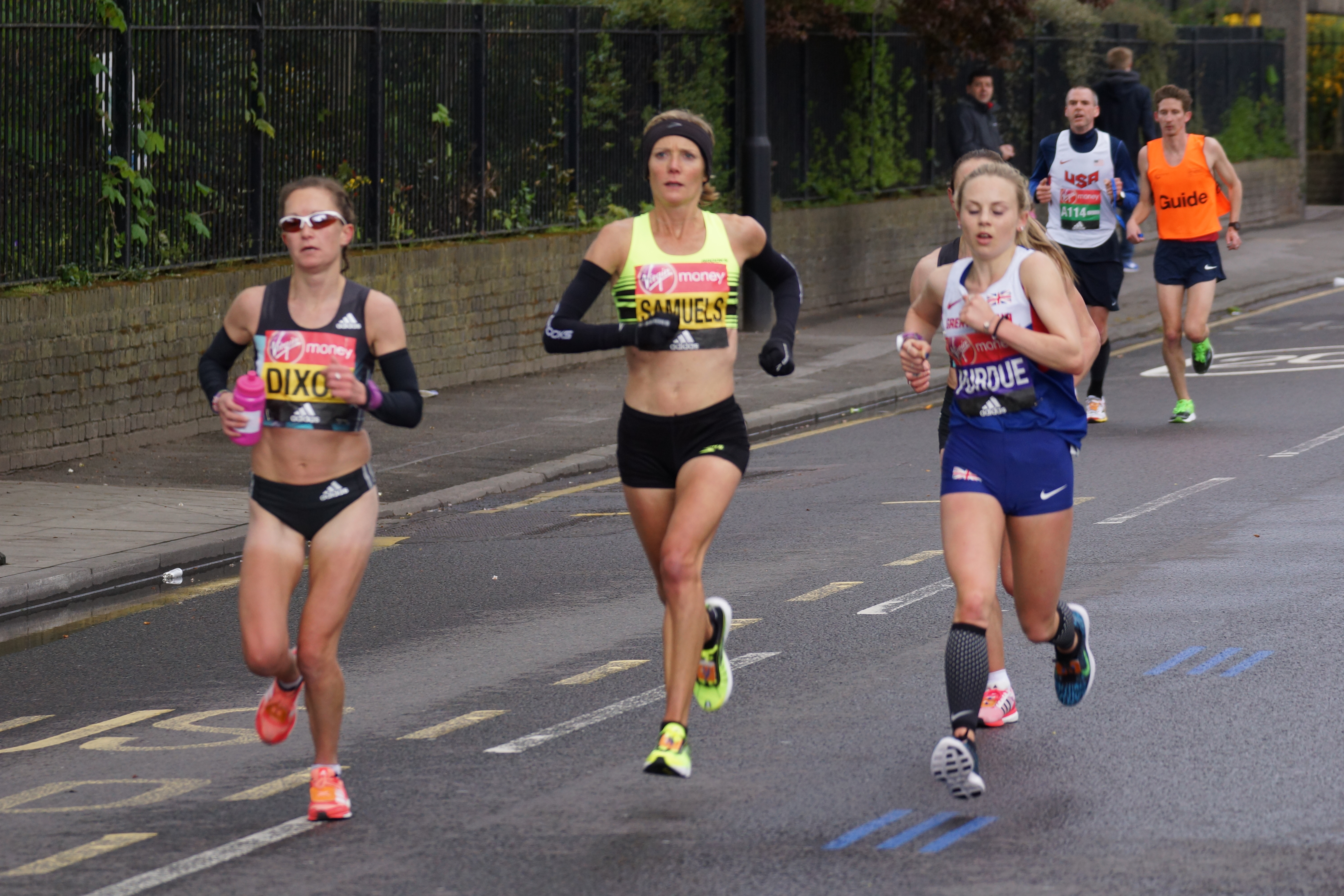 Charlotte Purdue, Sonia Samuels, Alyson Dixon. Photograph taken by Julian Mason on 24th April 2016 during the London Marathon. Location Westferry Road on the Isle of Dogs close to Arnhem Place and just before Millwall Outer Dock.